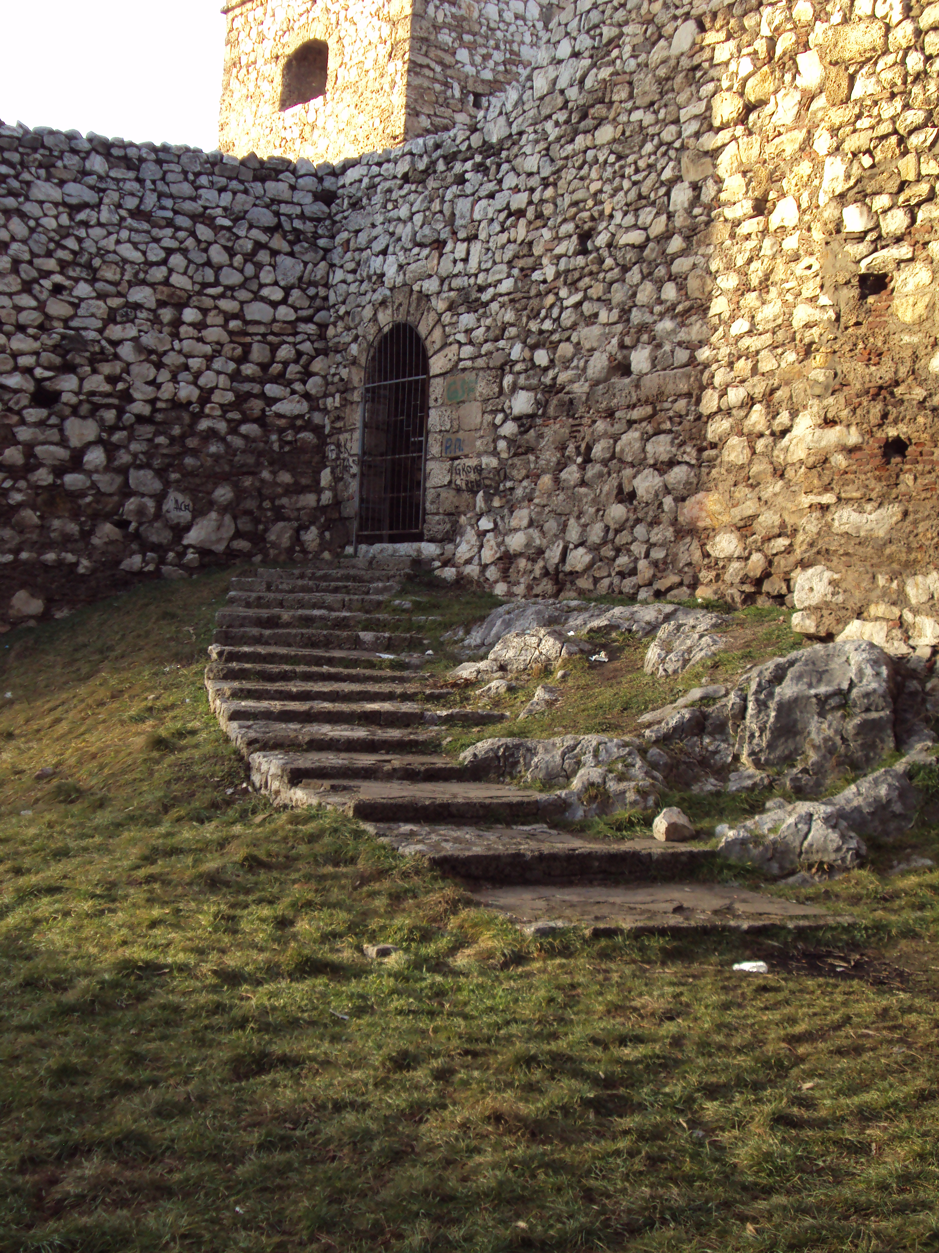 Pirot fortress